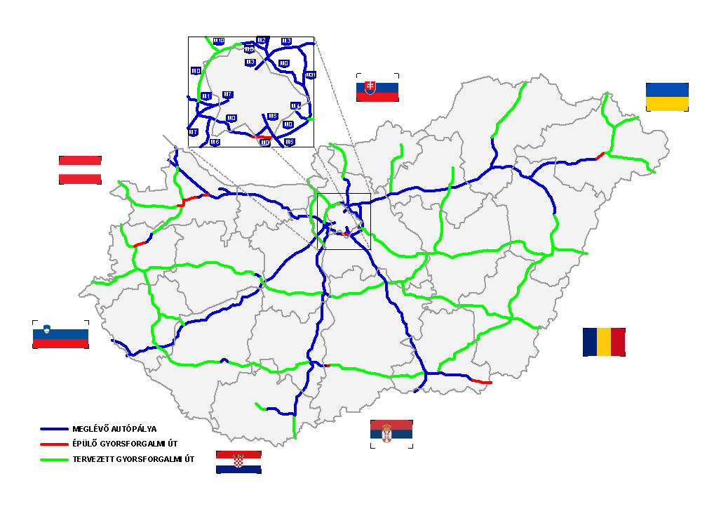 Hungary Motorways 01 2013